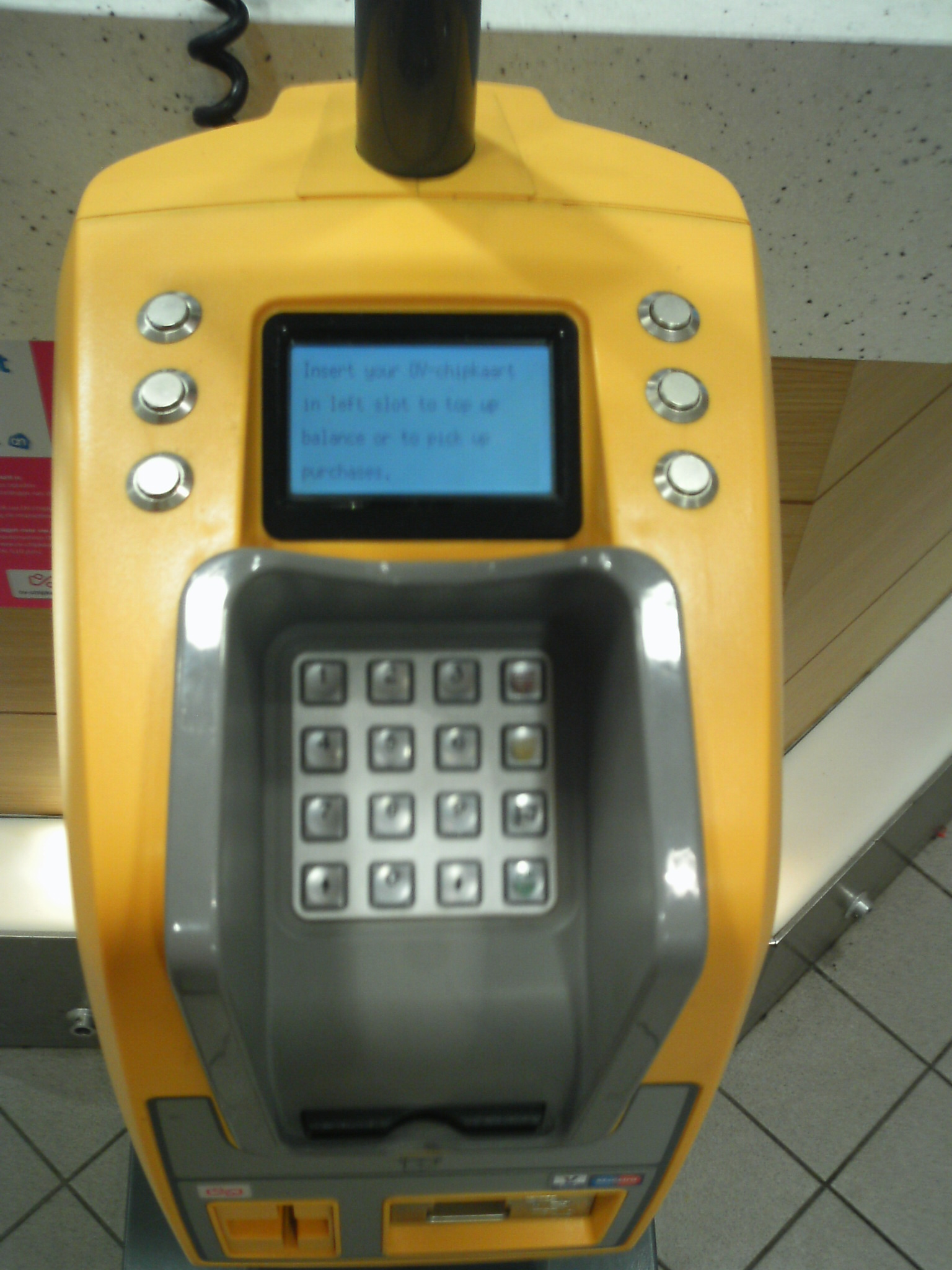 Machine to top up the balance of OV-Chipcard purses or to pick up internet ordered products. Screen language set to English. These machines can be found at supermarkets or tobacco shops.